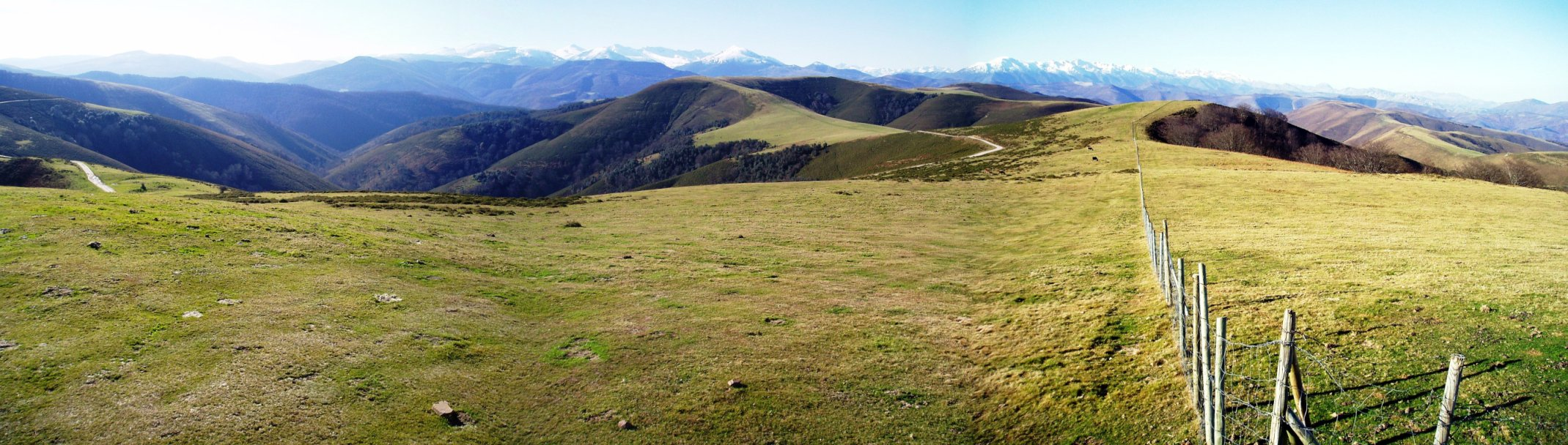 Panoramic view from Tordias Peak (968 meters). Arenas de Iguña (Cantabria, Spain)